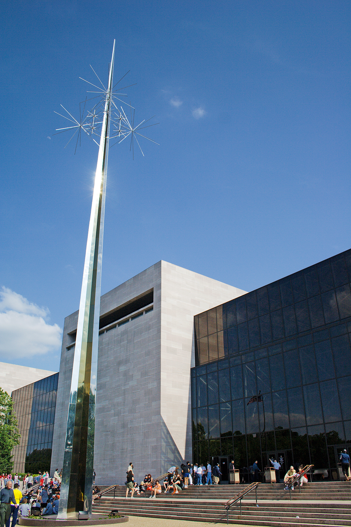 National Air and Space Museum of the Smithsonian Institution, Washington, DC. Architect: Gyo Obata.